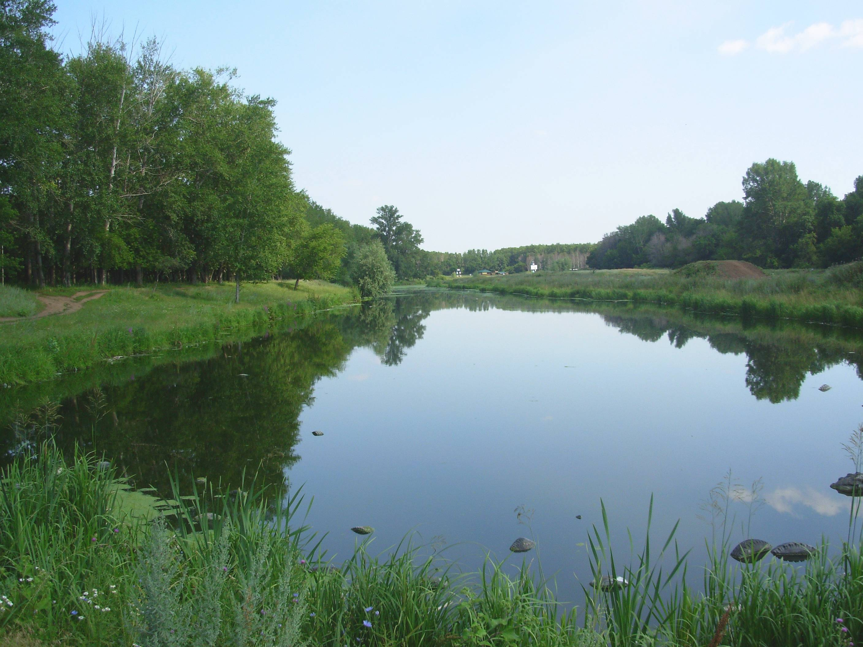 Lake Ialpoi Salavat Russia